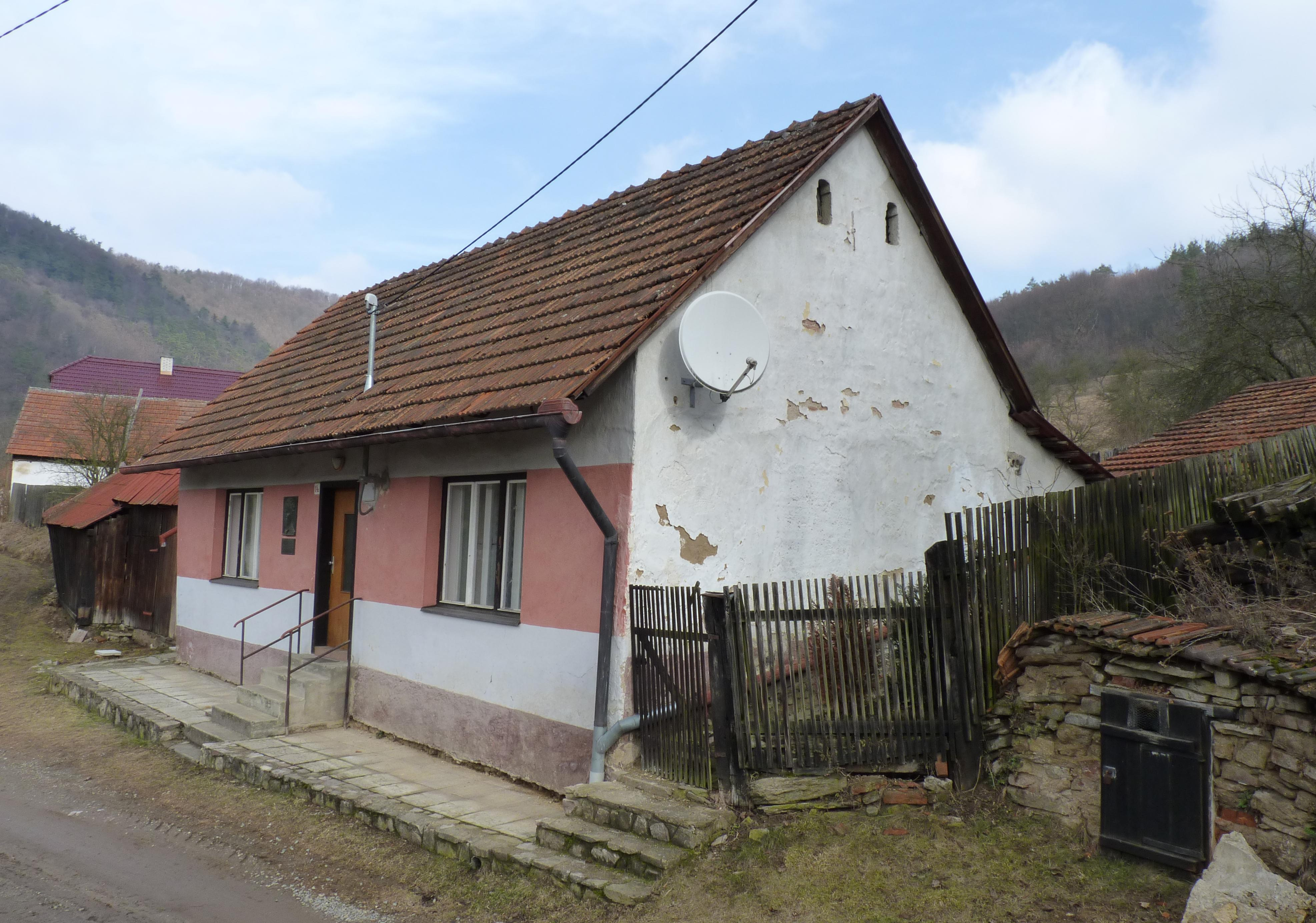 Borač. Brno-Country District, South Moravian Region, Czech Republic